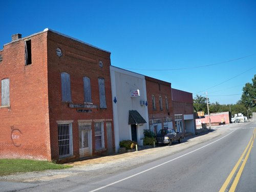 traveling through lula georgia